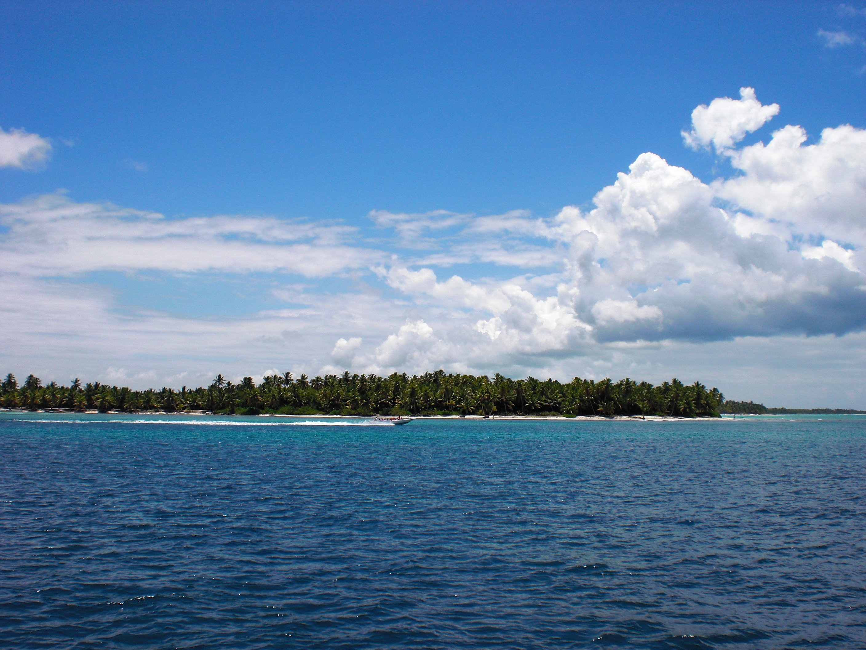 A view of Saona Island with Catuano village to the left